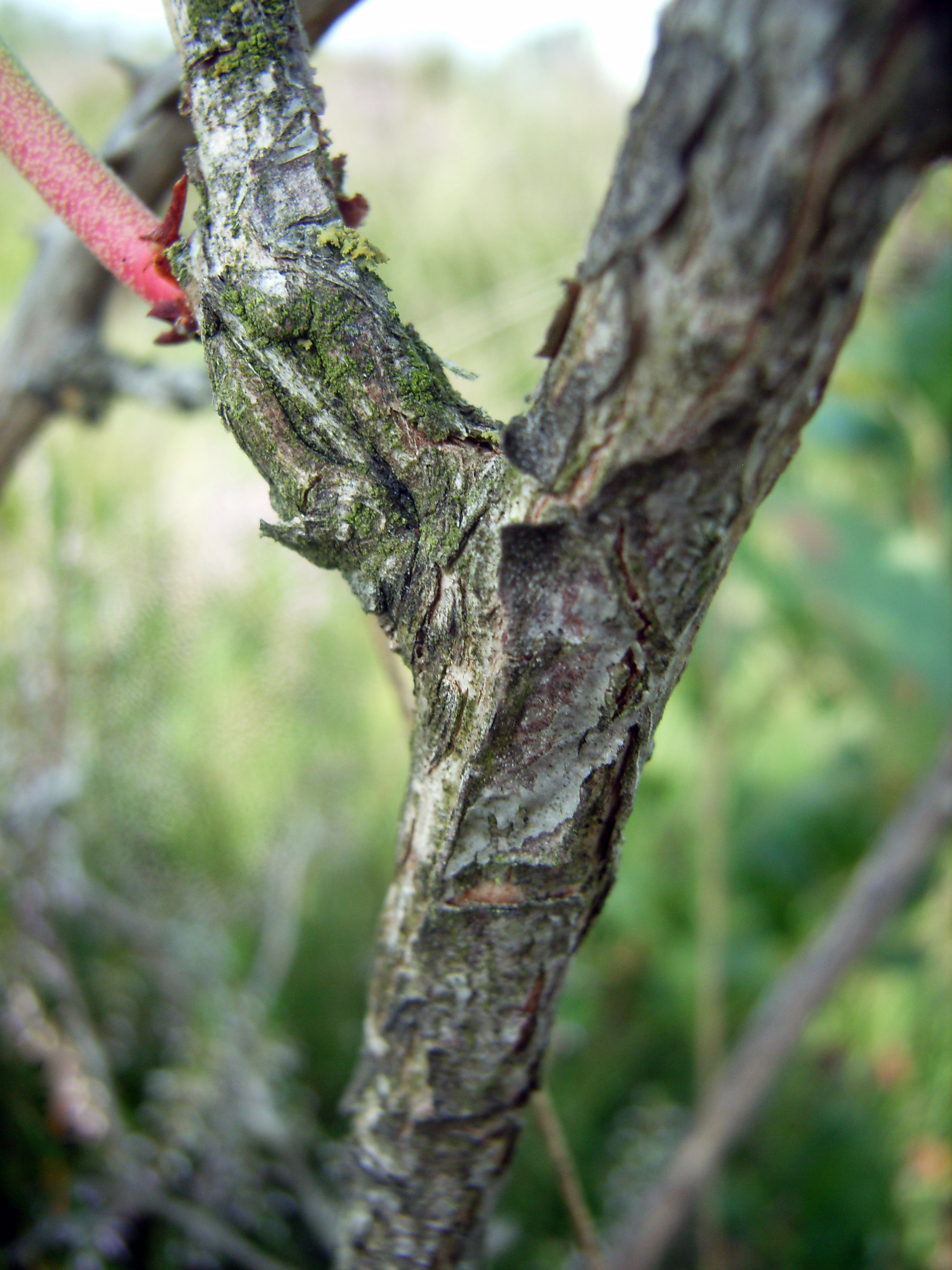 Vaccinium cf. corymbosum in a raised bog in Lower Saxony (Germany)